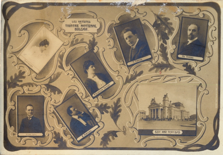 A postcard with the portraits of actors from the Bulgarian National Theatre "Ivan Vazov": Ekaterina Zlatareva, Adriana Budevska-Gancheva, Vasil Kirkov, Ivan Popov, Tacho Tanev, ? Hristov